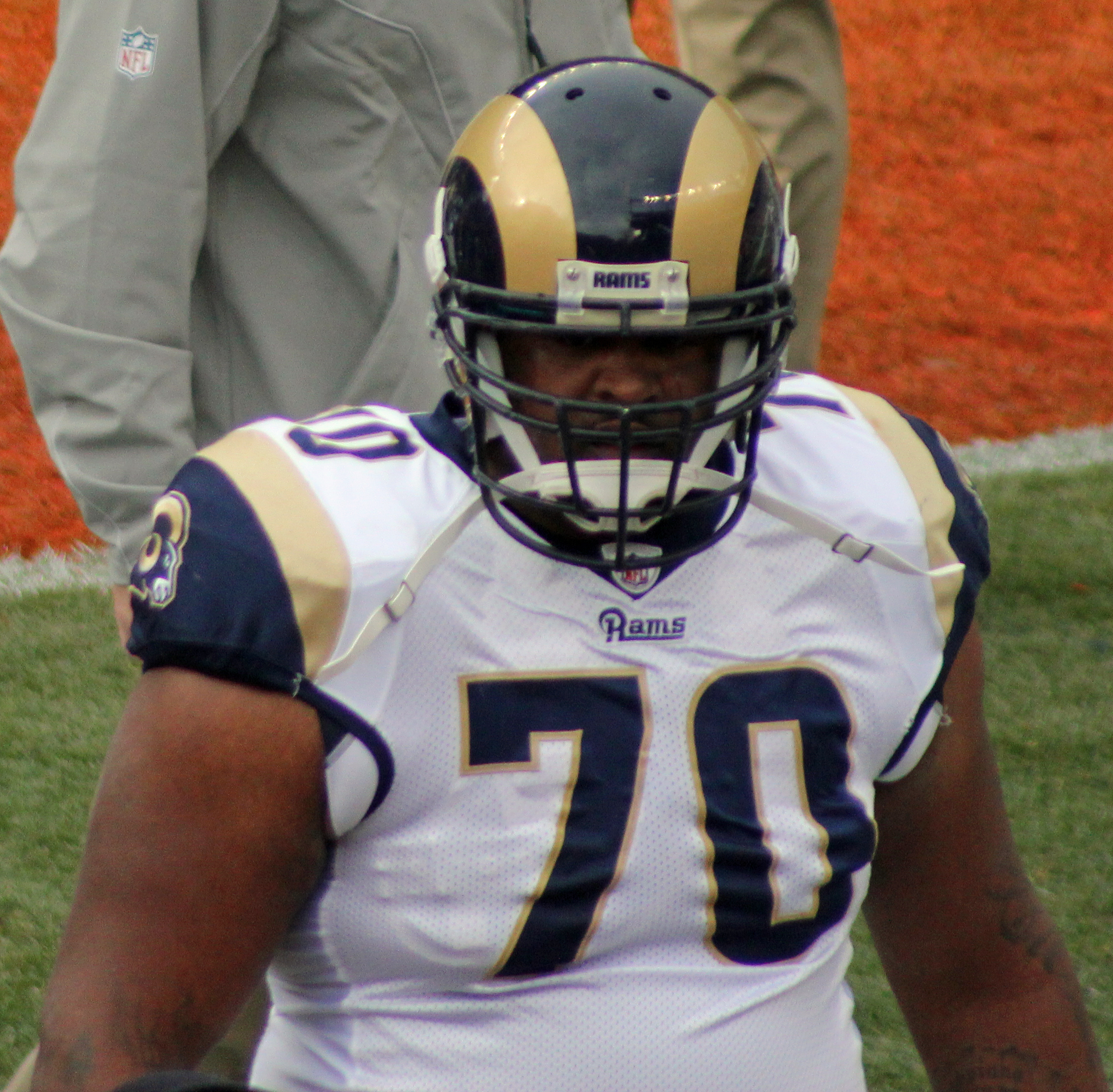 Renardo Foster, a player on the Saint Louis Rams American football team.